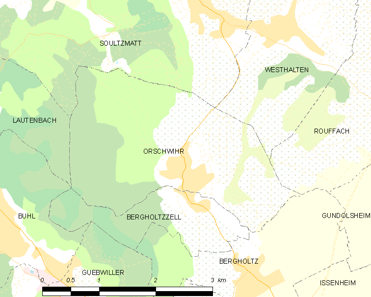 Map of French municipality